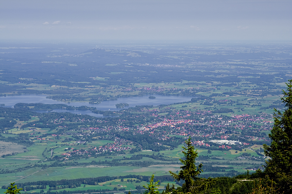 Murnau am Staffelsee, view from Heimgarten